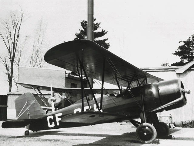 Stearman Model 4D